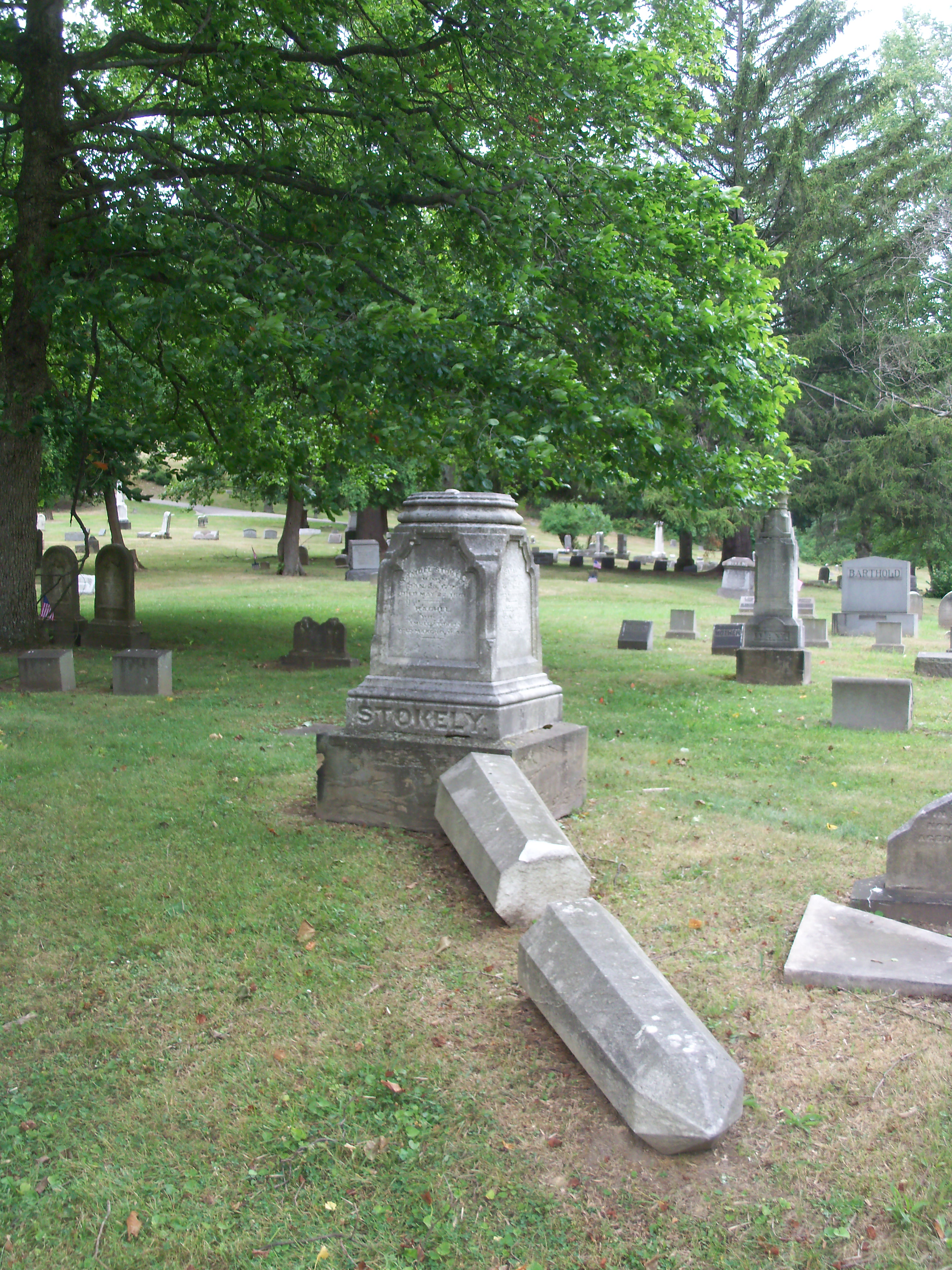 Tomb of Samuel Stokely at Steubenville, Ohio.